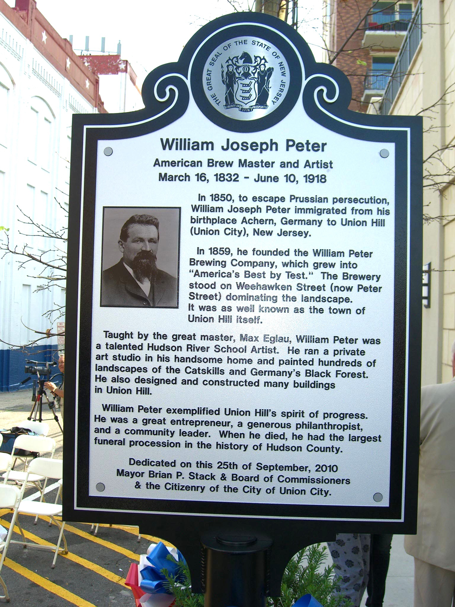 Newly unveiled historical marker in Union City, New Jersey honoring brewmaster and artist William Joseph Peter. The marker is located near the corner of Hudson Avenue and Peters Street, where the Wm. Peter Brewing Company once stood, in the portion of Union City that at the time, was Union Hill. At left is Union City Commissioner Lucio P. Fernandez. Photo by Luigi Novi. This photo may be used, modified and published for any purpose, only if a easily visible credit to the photographer is placed near the photo in each instance in which it is used. (See licensing information below.) Publication of this photo without this proper attribution constitutes copyright infringement. For more information on my photos, you can contact me here.